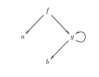 A term with a loop